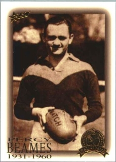 Photo of Percy Beames taken in 1944